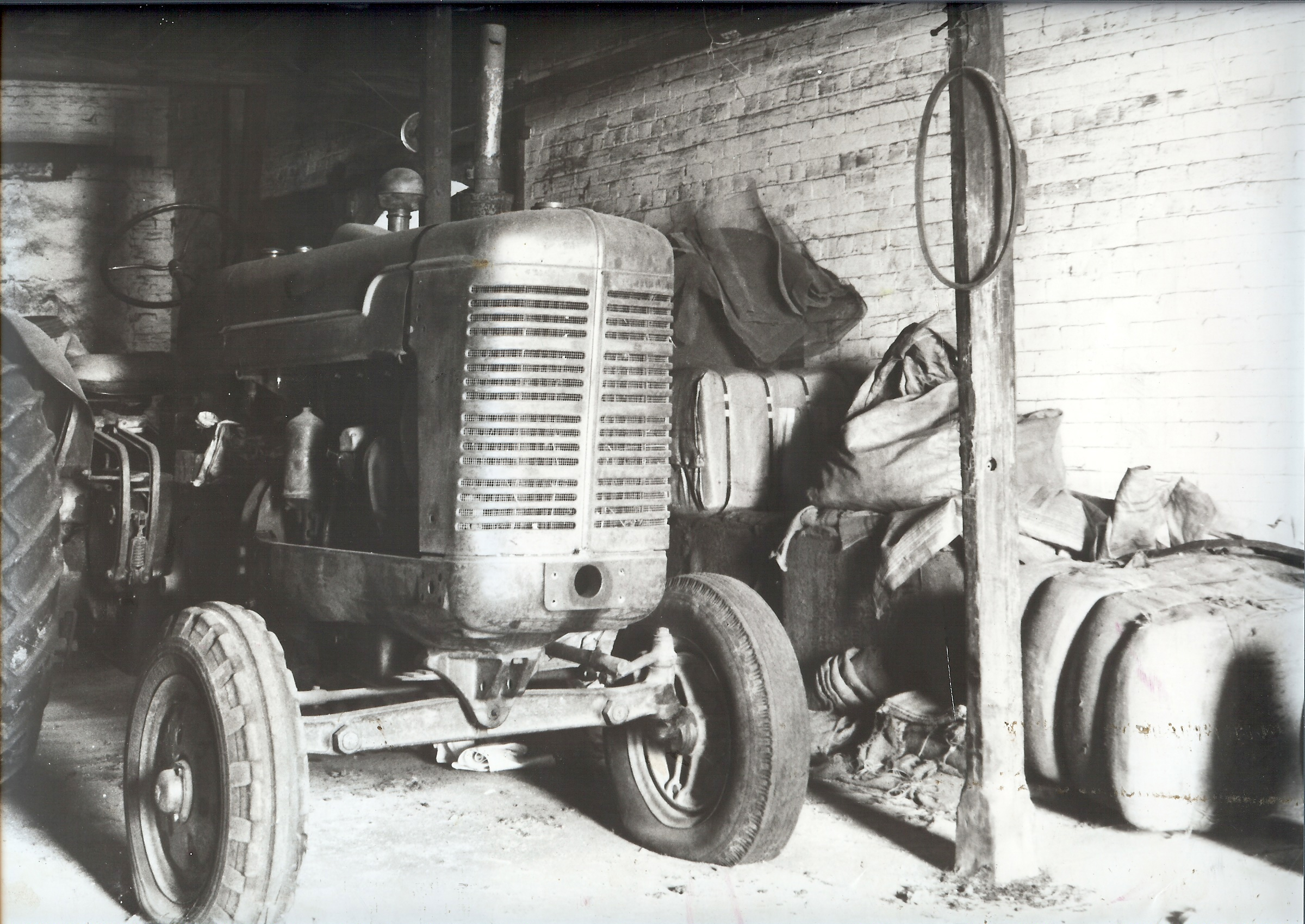 Photograph taken by VirtualSteve (in 1990). Full catalogue of all my images uploaded to Wikipedia available here Images